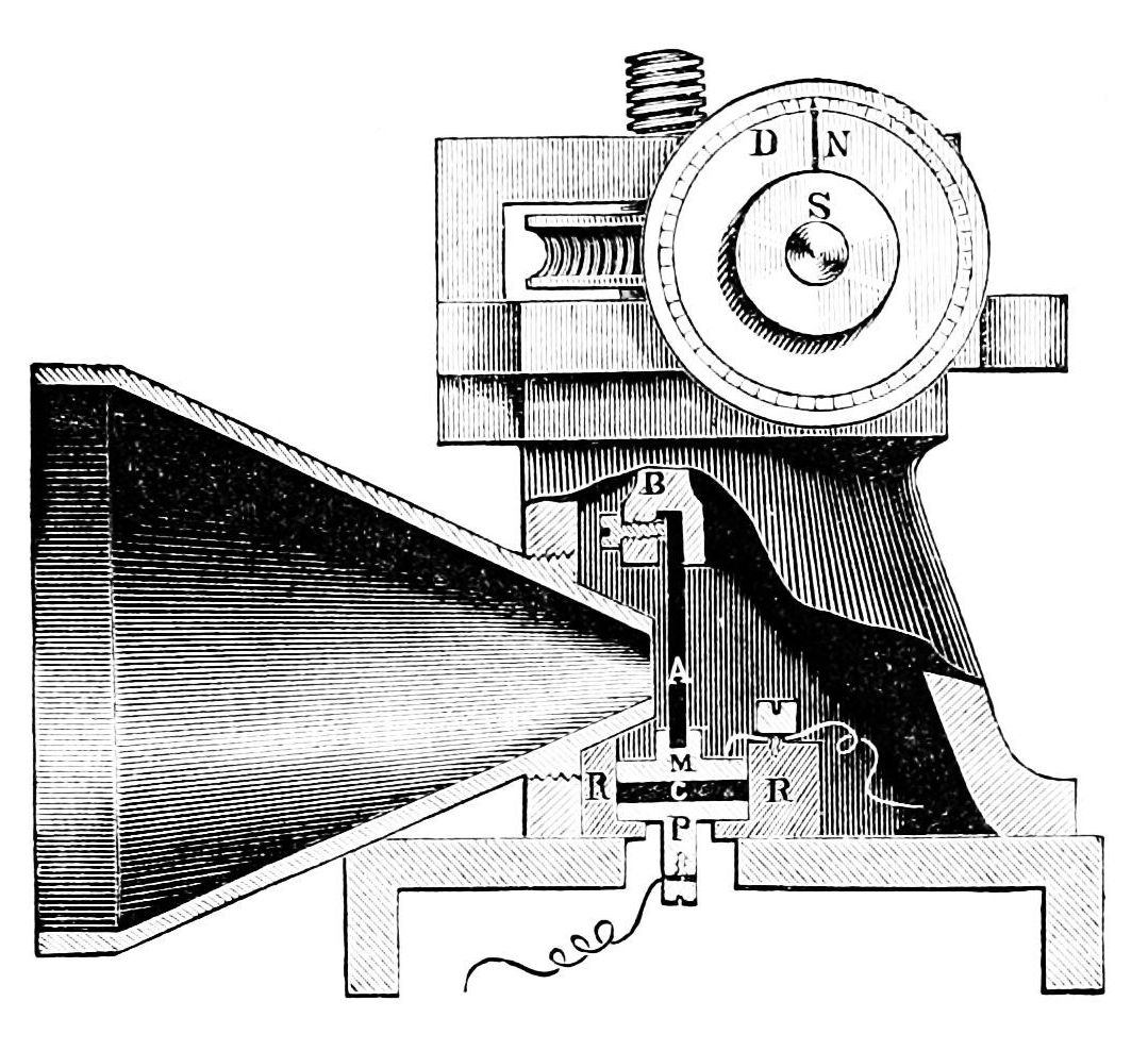 Cutaway view of the aerophone